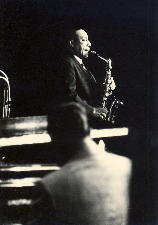 Johnny Hodges playing in Duke-Ellington Orchestra's concert in Frankfurt/Main, Germany, at "Jahrhunderthalle Hoechst". The photo was made with EXAKTA, Varex IIb, VEB-Dresden and Schacht-Objectiv 135 mm.